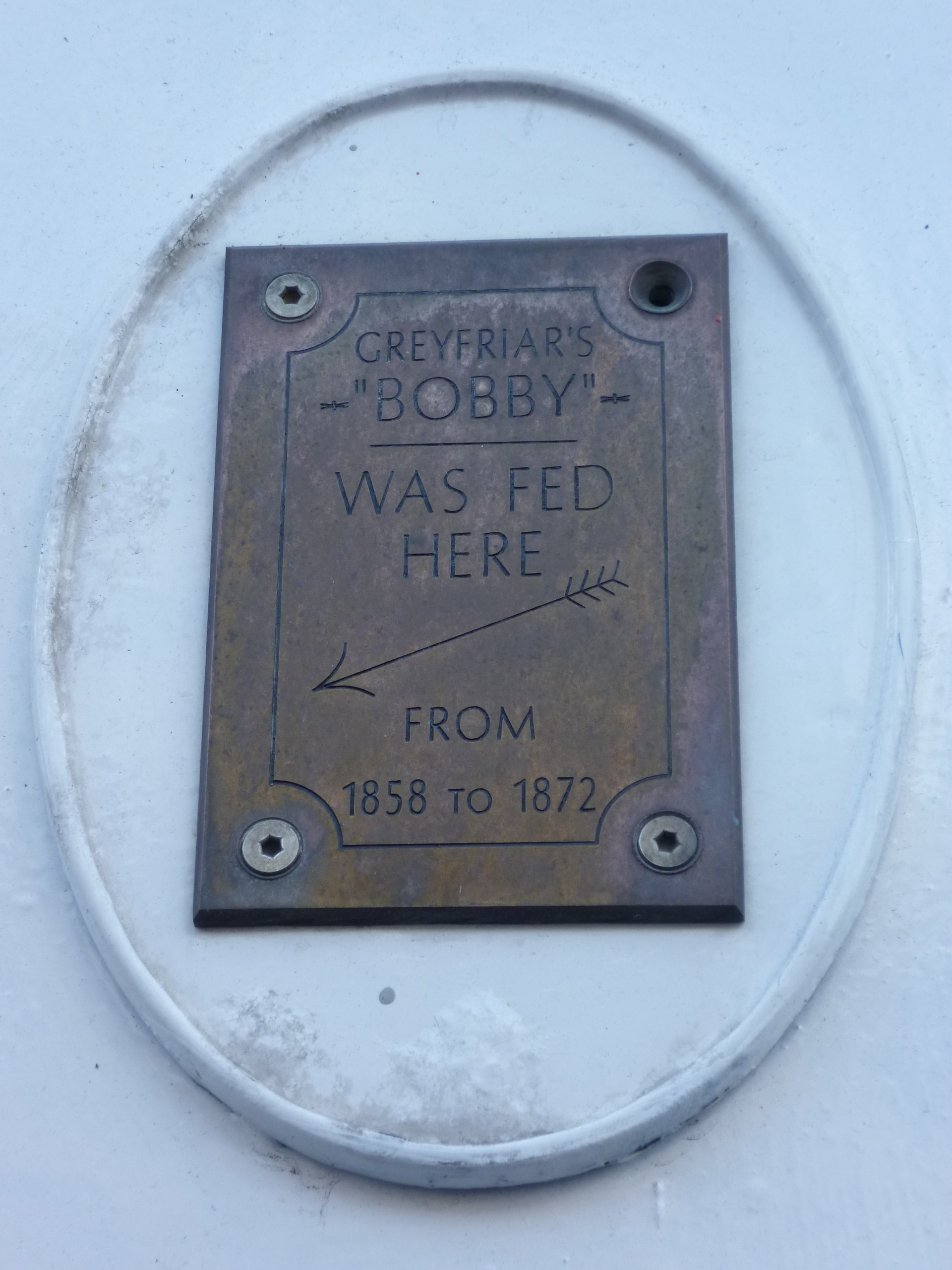 A plaque on the site of a tavern where Bobby was a welcome vistor.